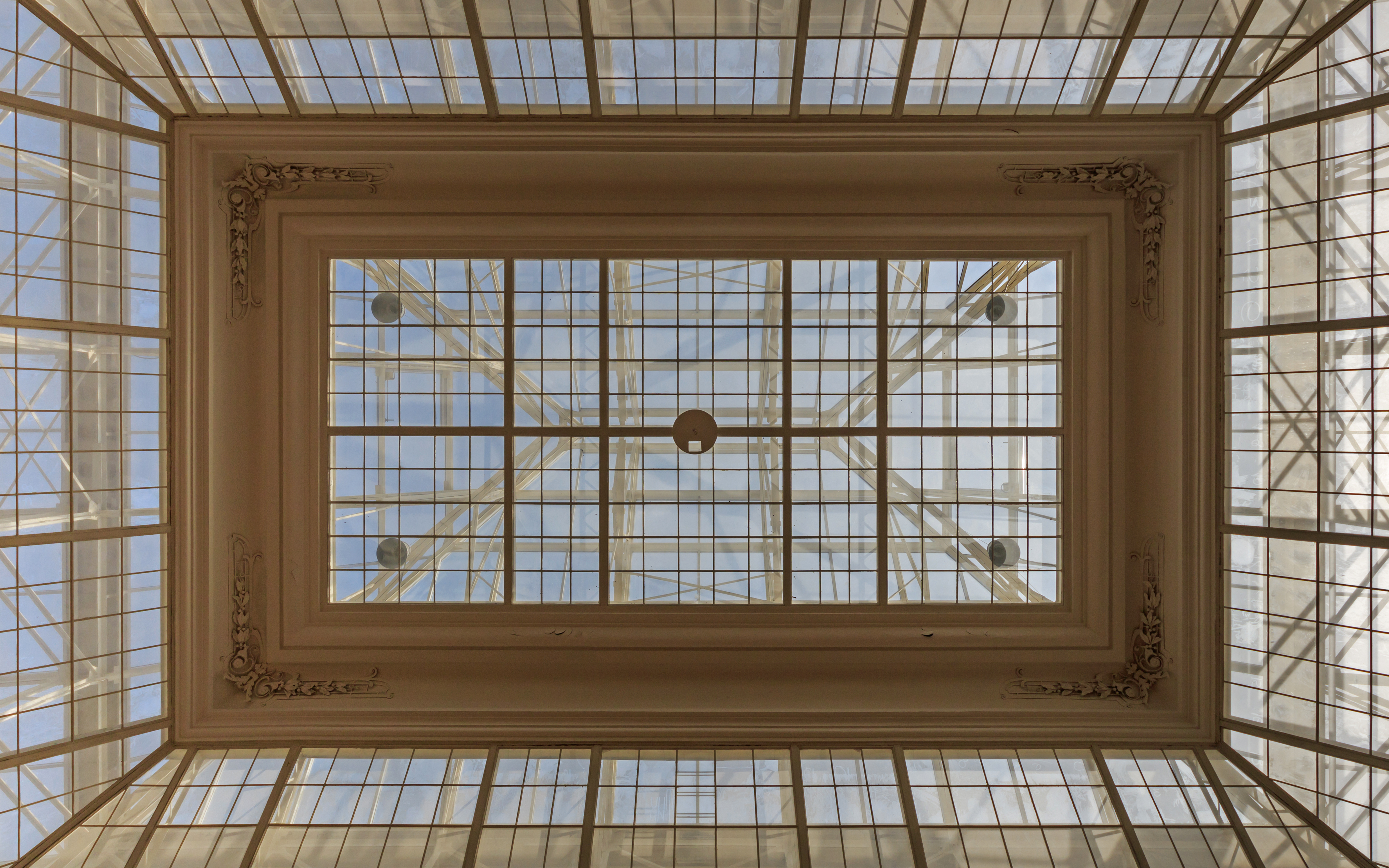 Interior of the Main Post Office in Saint Petersburg (Russia).